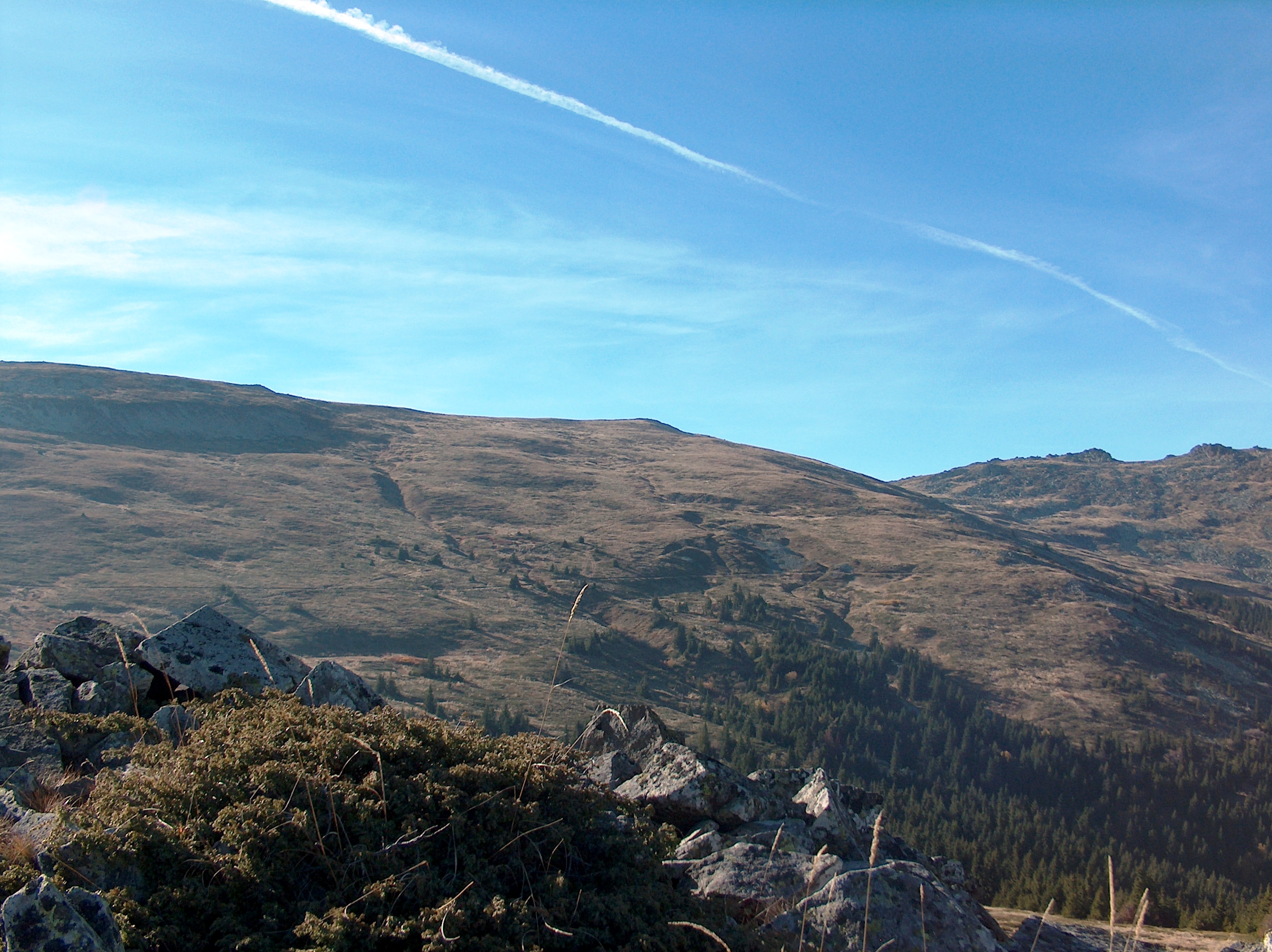 Bistrishko Branishte Biosphere Reserve with the peaks of Golyam Rezen and Malak Rezen in the background.